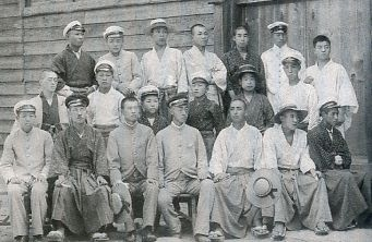 This picture is Kotora Tanahashi(1889-1973) at the Matsumoto high school(1905).